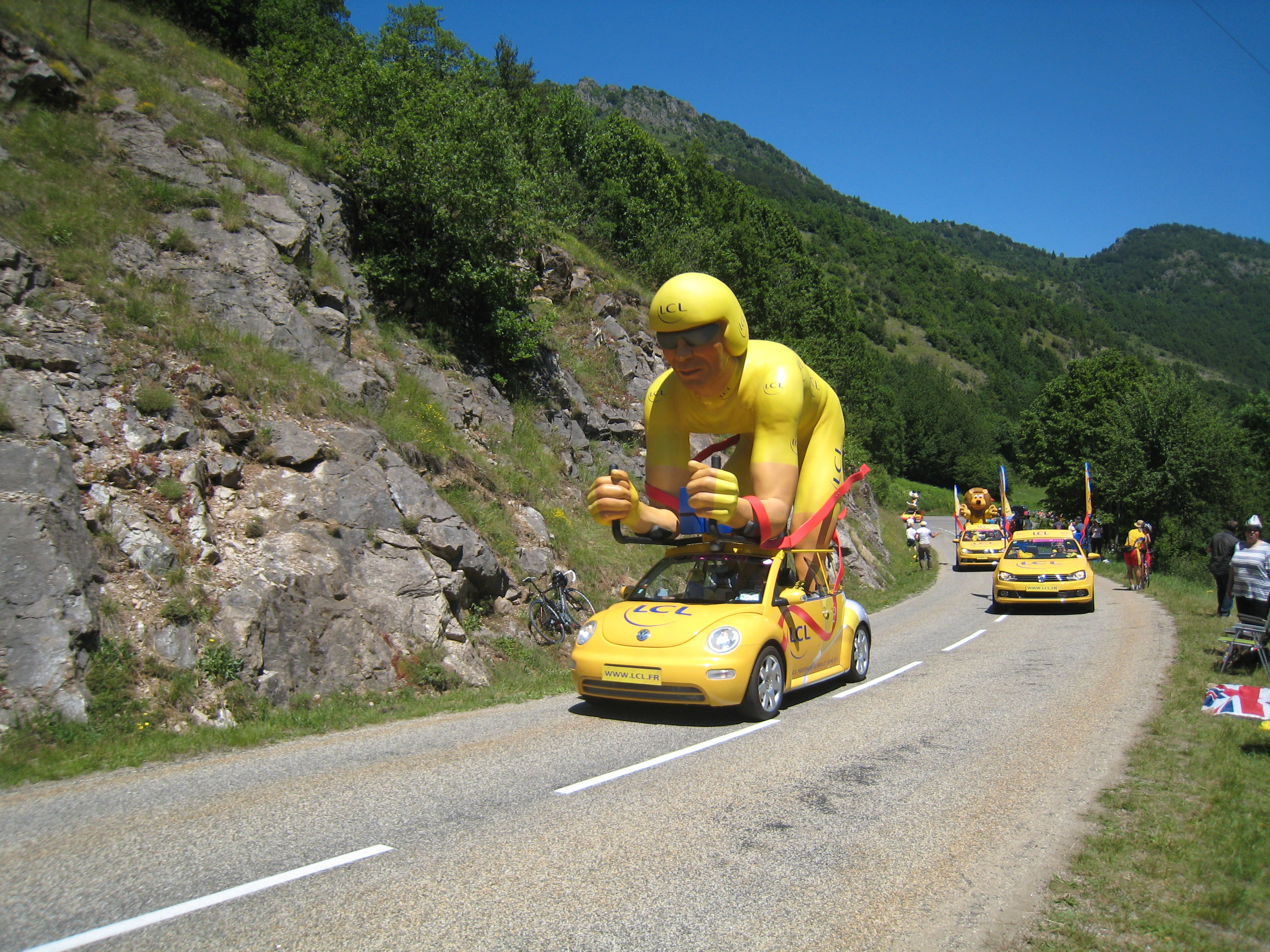 Tour de France caravane on Port de Pailheres